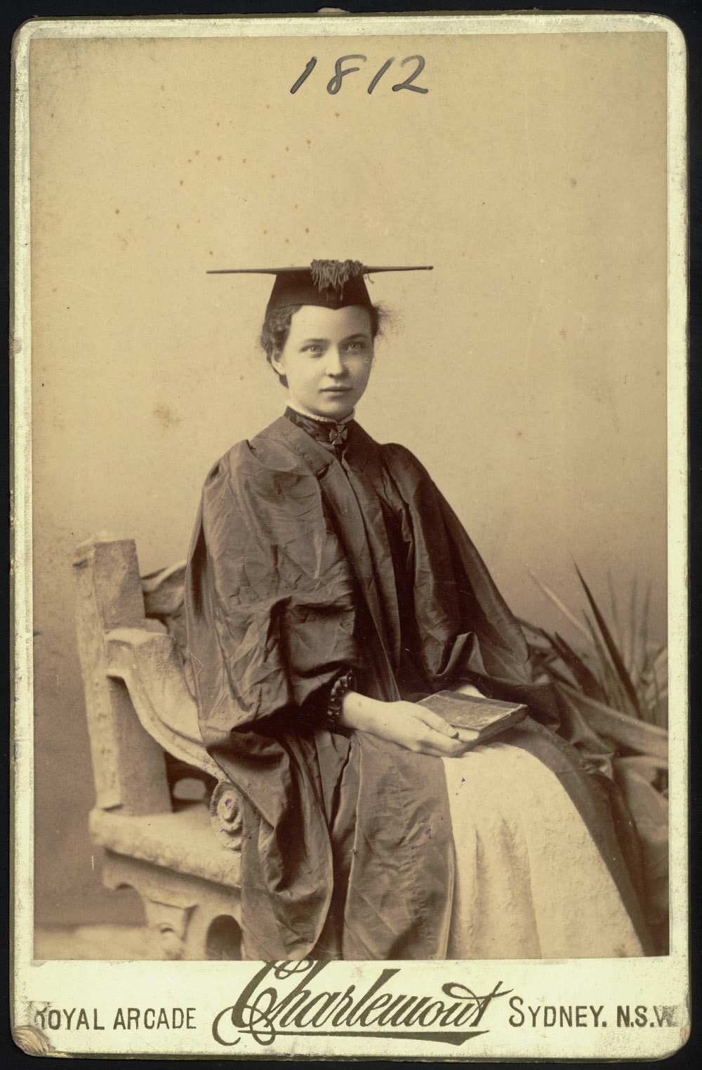 This is a sample selection of the photographs from NRS9873. The series consists of photographs of doctors applying for registration as medical practitioners in New South Wales. The photographs were required by the Medical Board of New South Wales from the beginning of 1889 to assist in the future identification of those issued with a licence by the Board. Grace Fairley Robinson was one of the two first women to graduate in Medicine from the University of Sydney in 1893. More information about Grace Fairley Robinson can be found in the Australian Dictionary of Biography. Title: Photograph of Grace Fairley Robinson, Doctor Dated: 12/04/1893 Digital ID: 9873_a025_a025000049 Rights: We'd love to hear from you if you use our photos/documents. Many other photos in our collection are available to view and browse on our website using Photo Investigator.